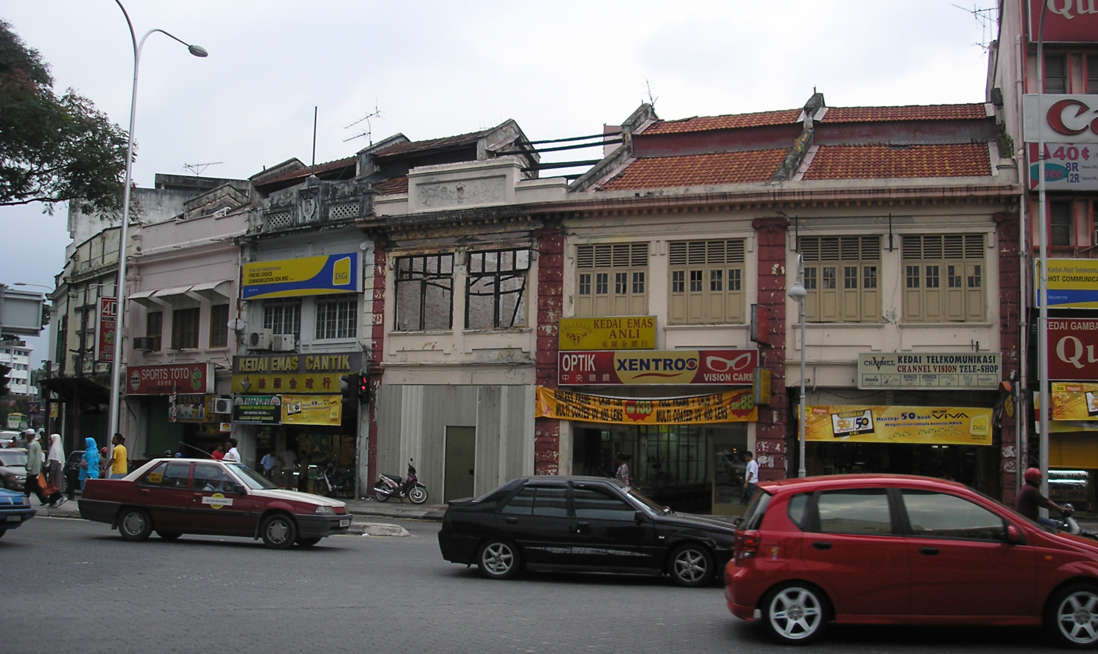 A set of shophouses collectively numbered 106 at the meeting point of Jalan Tuanku Abdul Rahman (previously Batu Road)-Jalan Raja Muda (previously Princes Road) in Chow Kit, Kuala Lumpur, Malaysia. Two shophouses pictured here were razed by fire and closed off from the public.